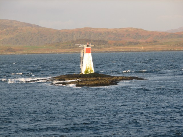 Lady's Rock. Isle of Mull beyond. Seen from the Oban to Coll ferry as it passed through the square.